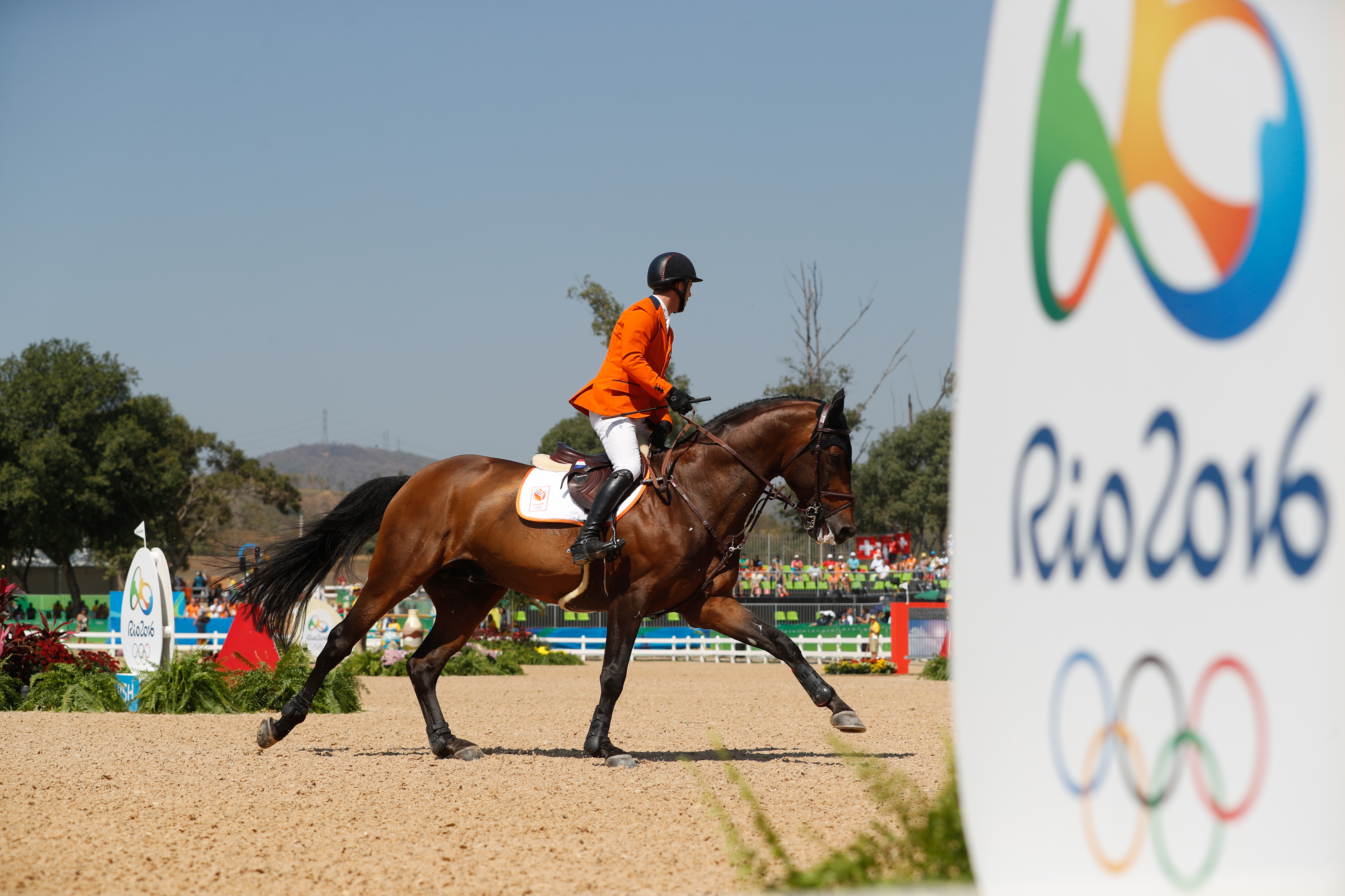 Rio de Janeiro - Cavaleiro da Holanda Maikel Van Der Vleuten na competição de saltos do hipismo por equipes nos Jogos Olímpicos Rio 2016, em Deodoro. ( Fernando Frazão/Agência Brasil)